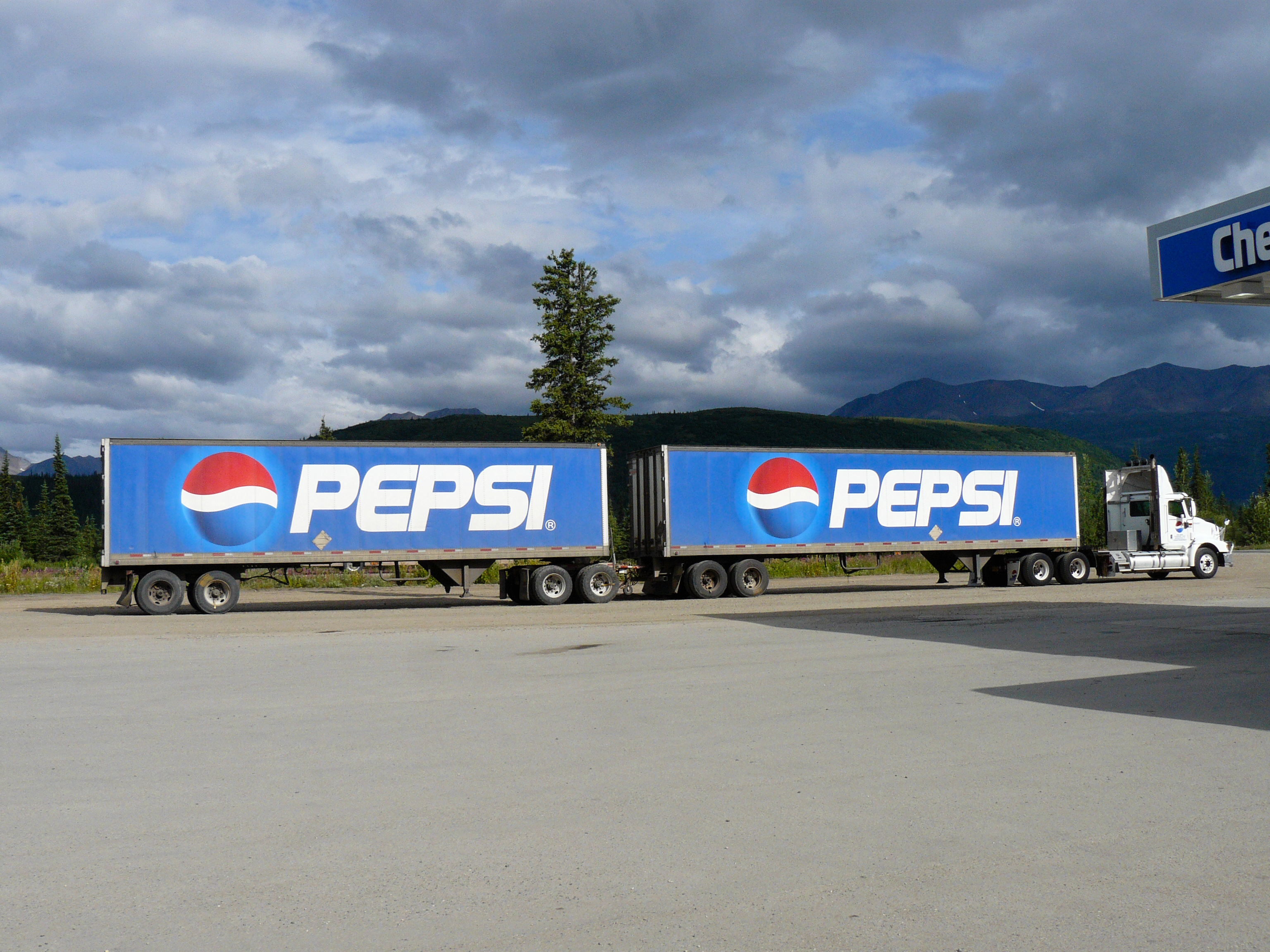 Tandem truck at a fuel station,Cantwell, Alaska.